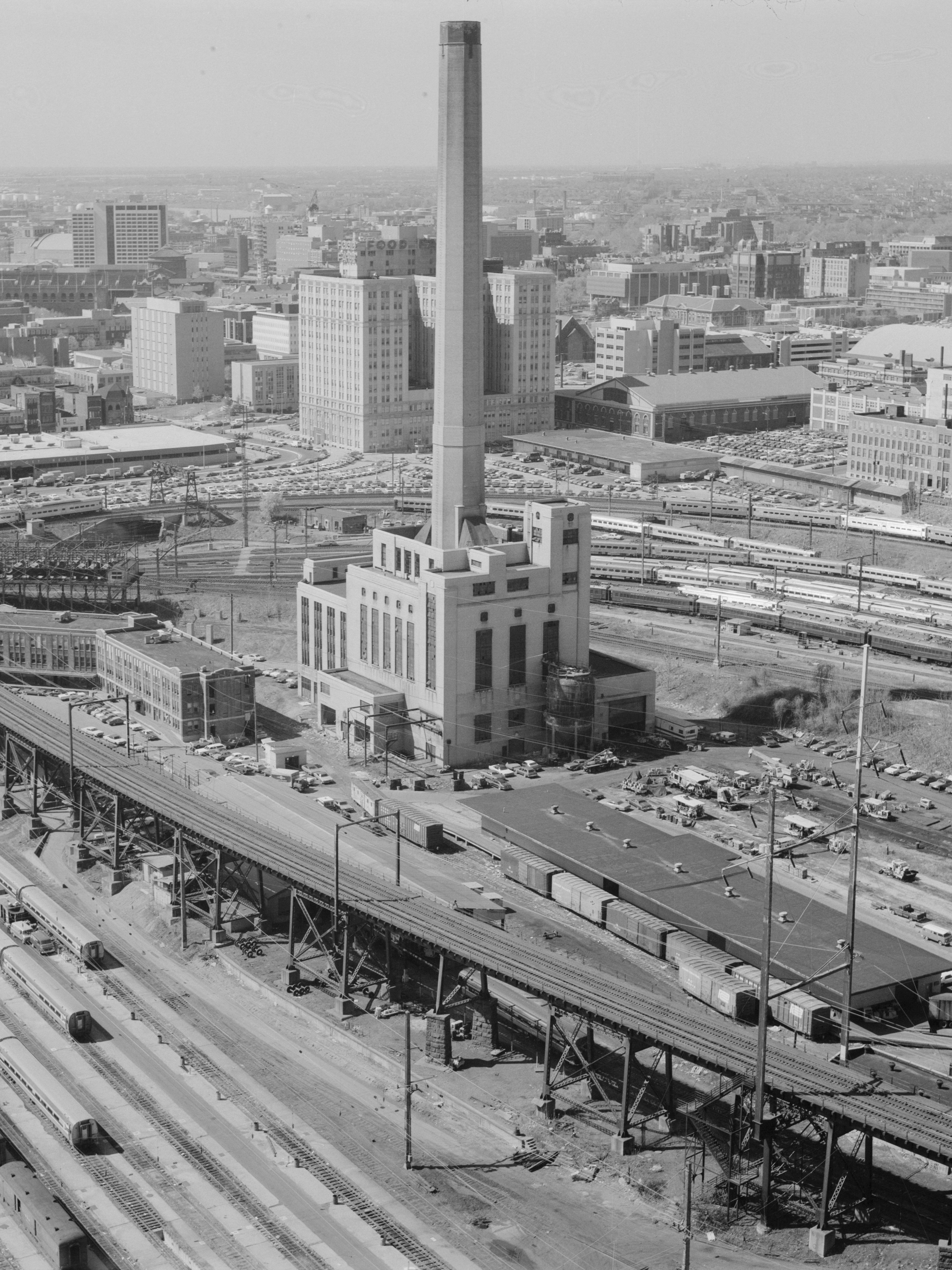 30th Street Station Powerhouse. Philadelphia, Pennsylvania.